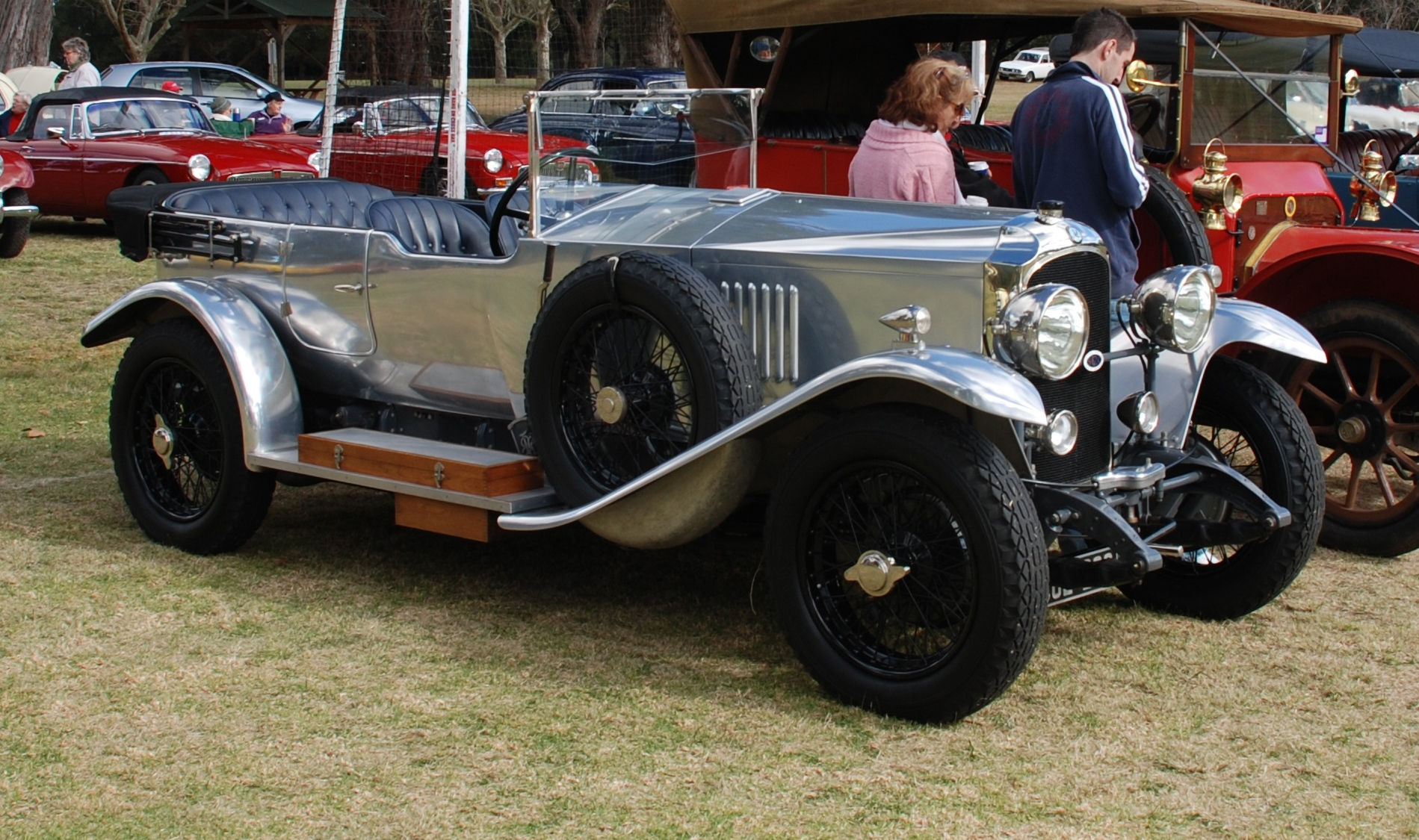 (crop of) Car display on Australian National Motoring Heritage Day, Bowral NSW, 2008. 1926 Vauxhall 30-98 with polished aluminium 'Velox' body.